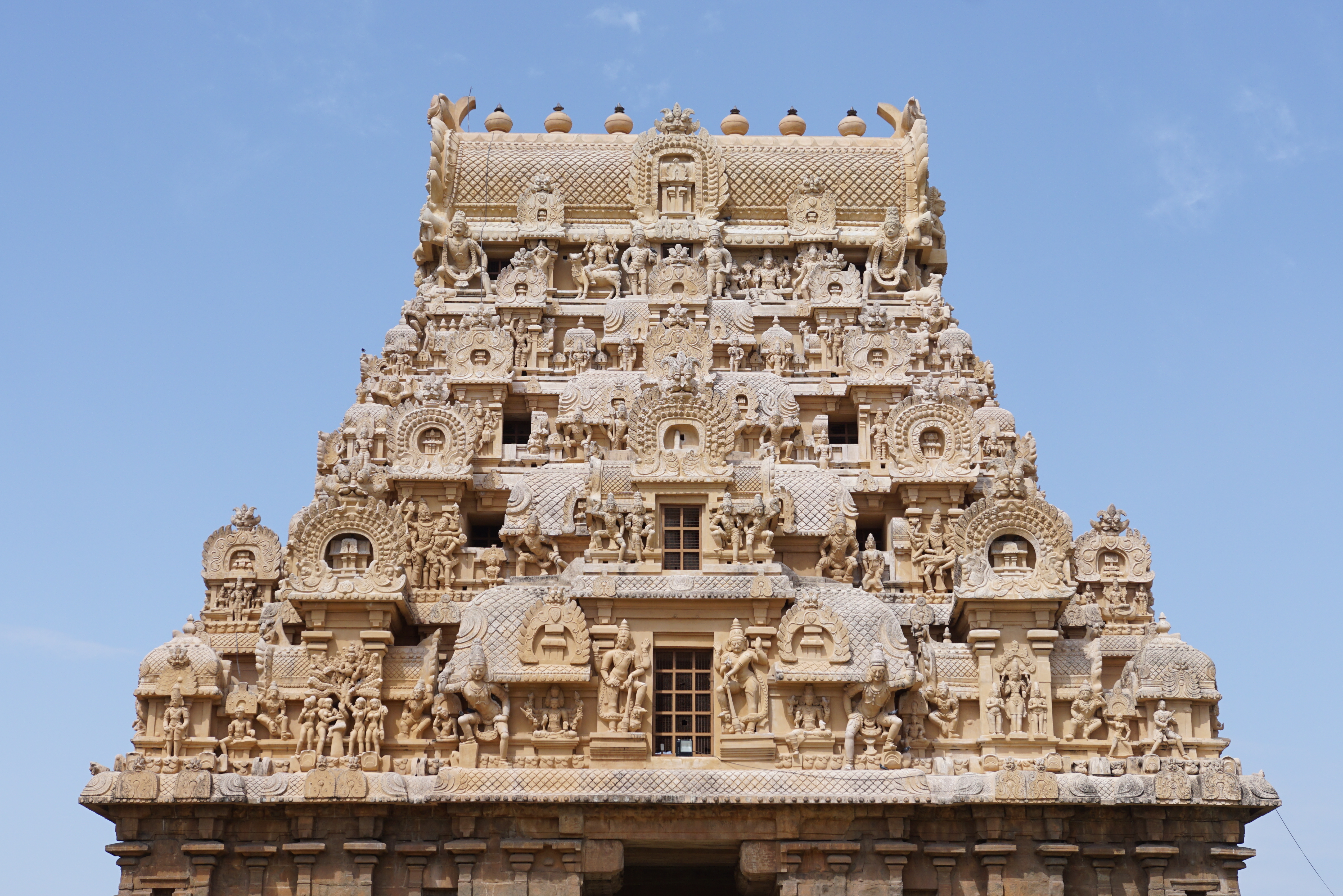 Brihadeeswarar Temple